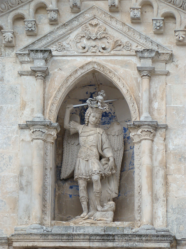 Sanctuary of Saint Michael the Archangel, Monte Sant'Angelo, Apulia, Italy. Statue of the Saint overlooking the main entrance.